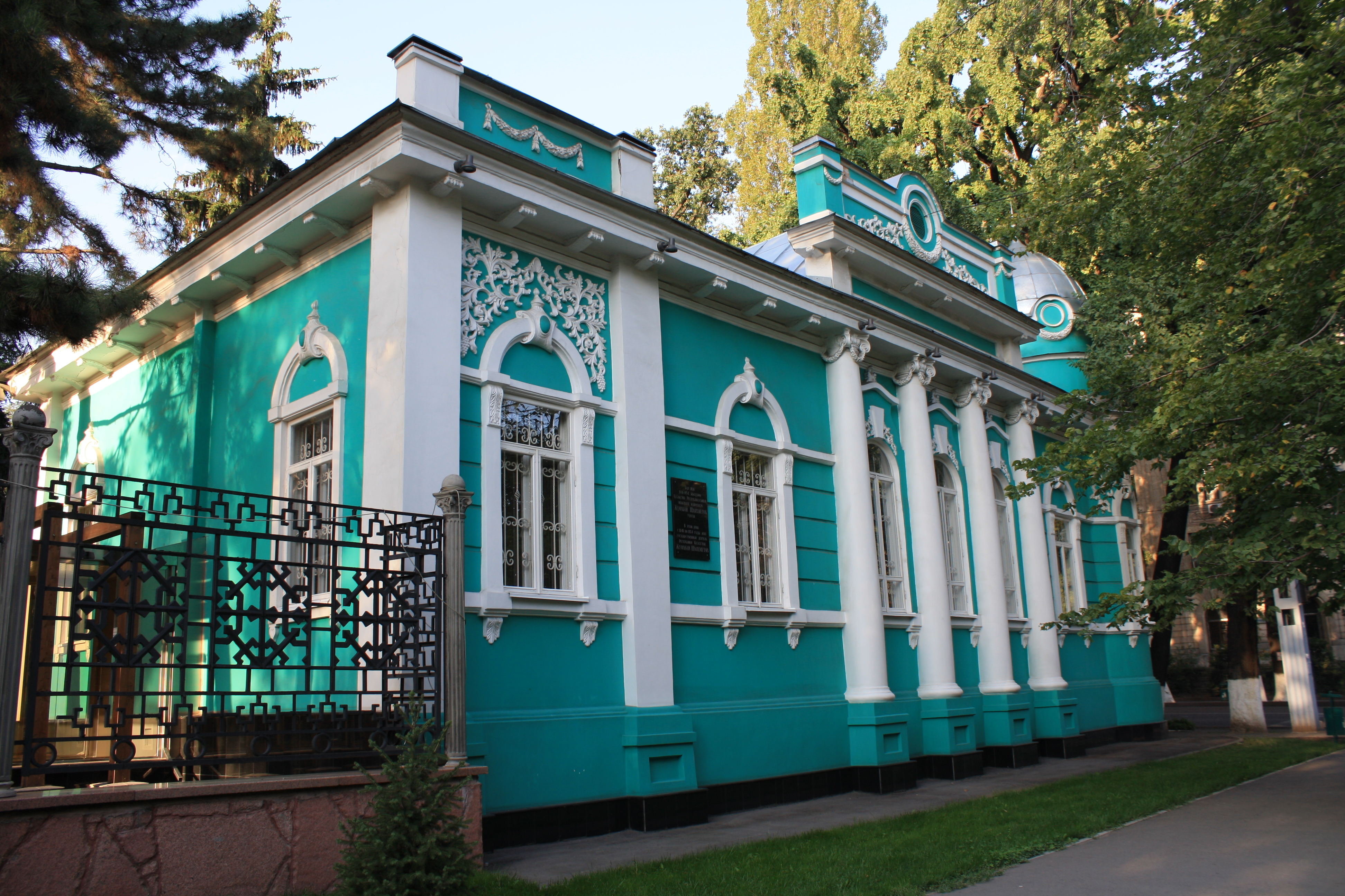 Furmanov street, 162 in Almaty, Kazakhstan. This house was built in 1908